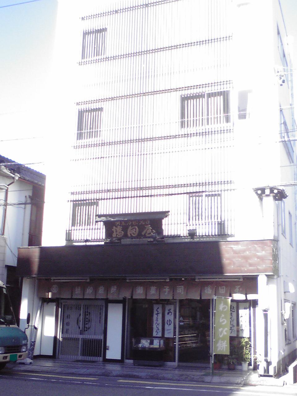 This is an Itoin Sembei shop in Ise City, Japan.